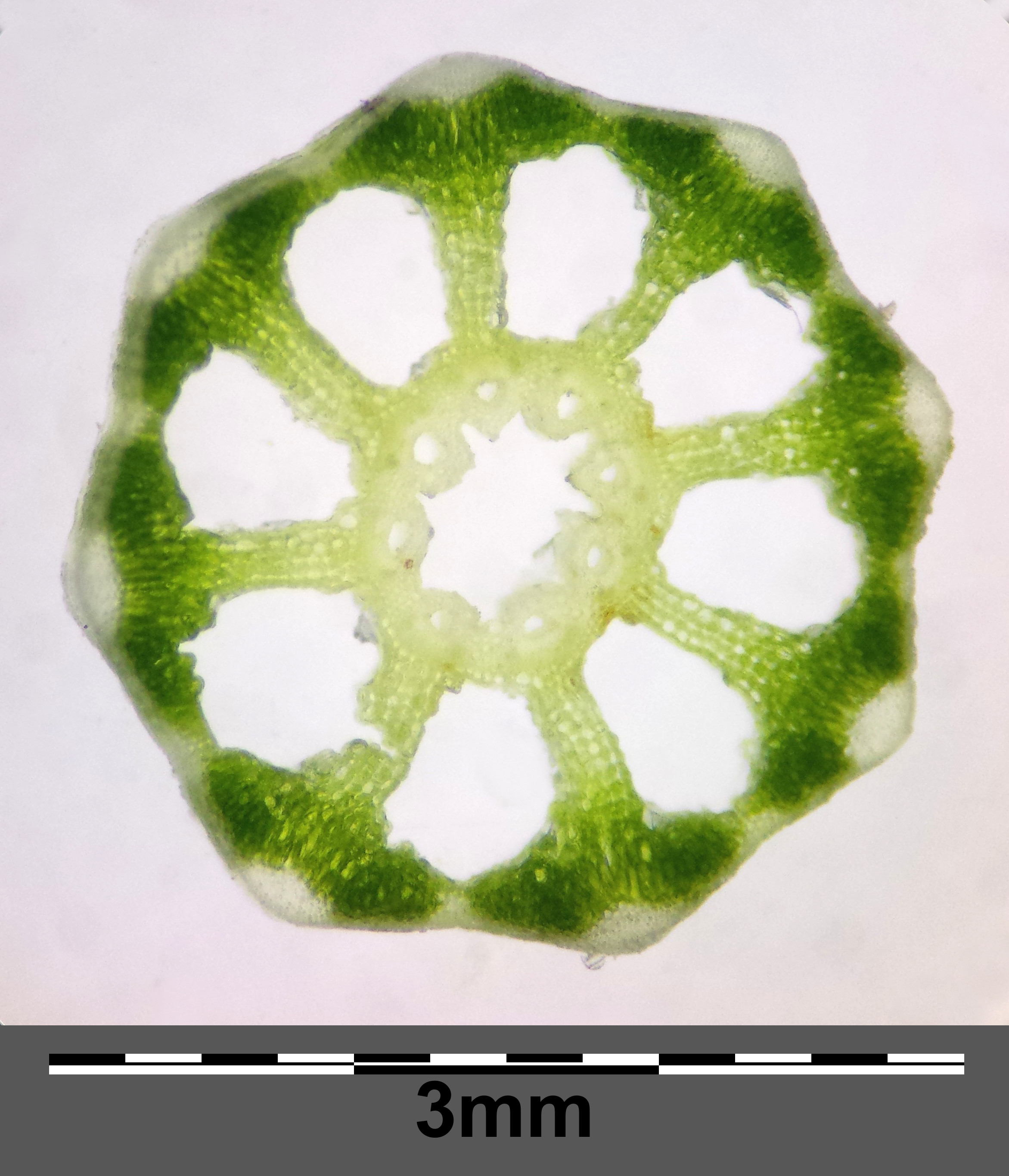 Stem (slice) Taxonym: Equisetum palustre ss Fischer et al. EfÖLS 2008 ISBN 978-3-85474-187-9 Location: near Praunsberger Wald near Niederhollabrunn, district Korneuburg, Lower Austria - ca. 300 m a.s.l. Habitat: wet meadows